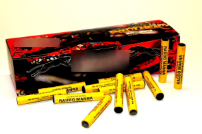 italian firework